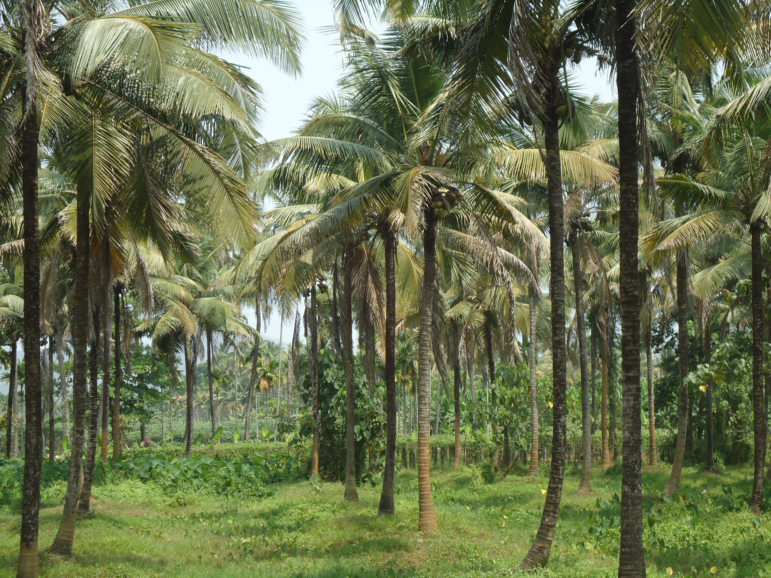 Coconut Tree Farm Kerala